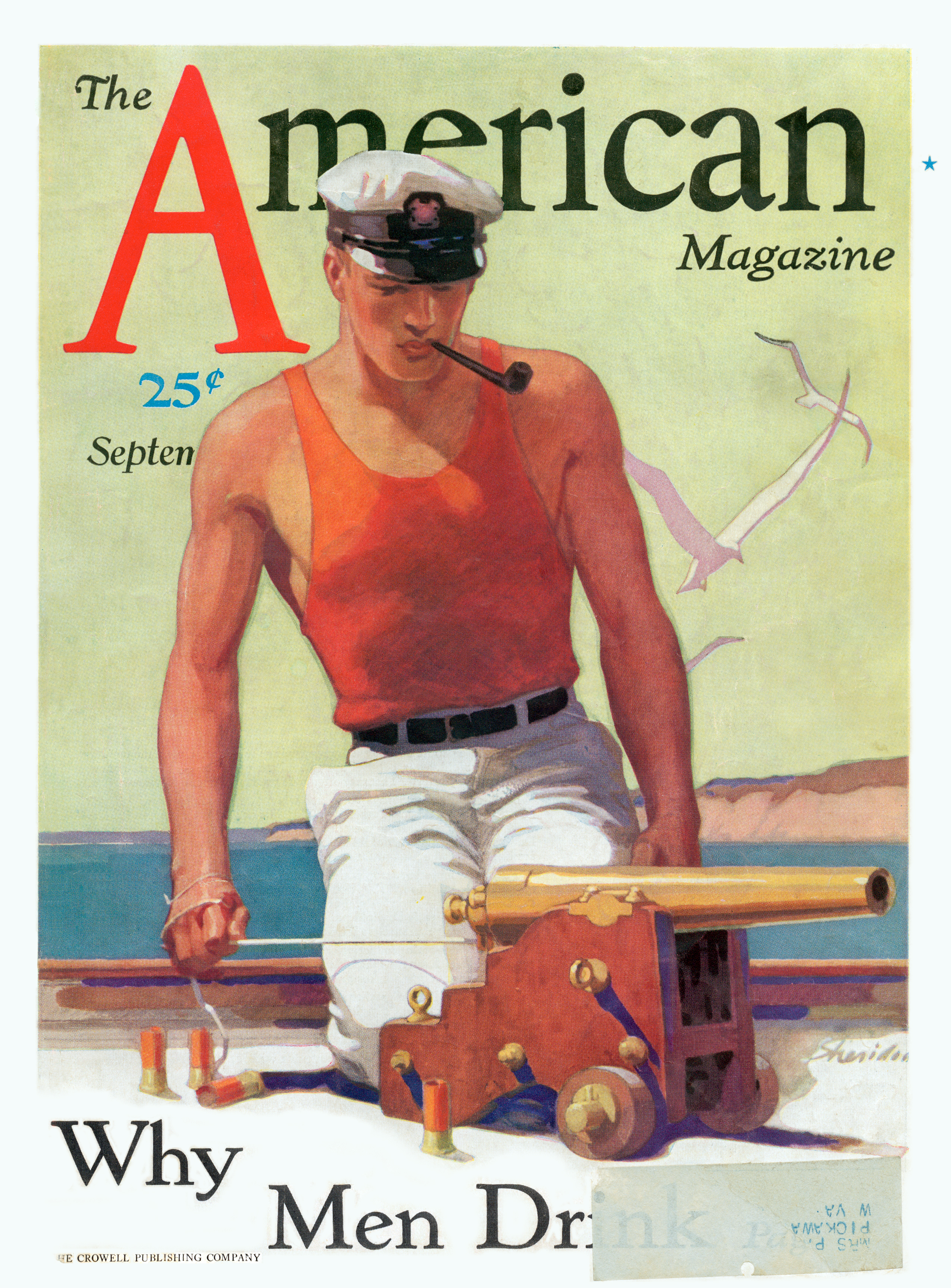 Illustration of Joseph Cotten on the front cover of The American Magazine (September 1931)